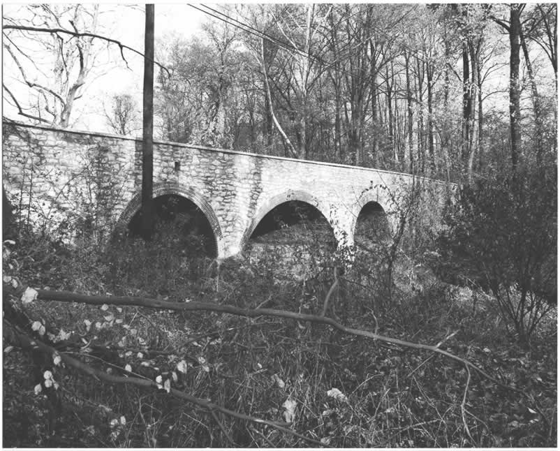 Side of the County Bridge No. 171, which carries Cedar Hollow Road over Valley Creek in Malvern, Pennsylvania, United States. Built in 1907, this stone arch bridge is listed on the National Register of Historic Places.